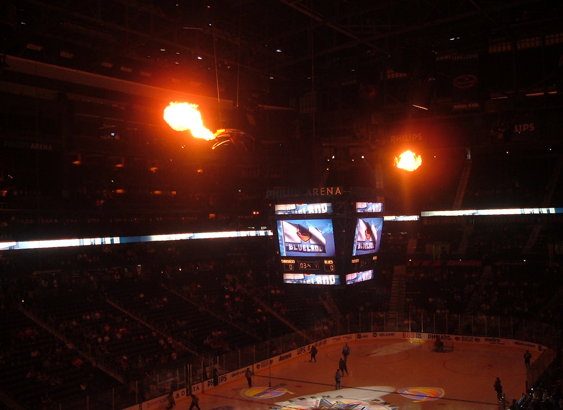 The birdheads at Philips Arena, prior to a Thrashers game